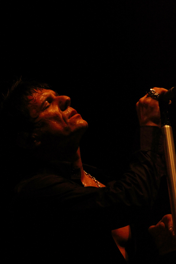 Miljenko Matijevic singing with The Doors at the Bospop festival, Weert, The Netherlands, 2010-07-11